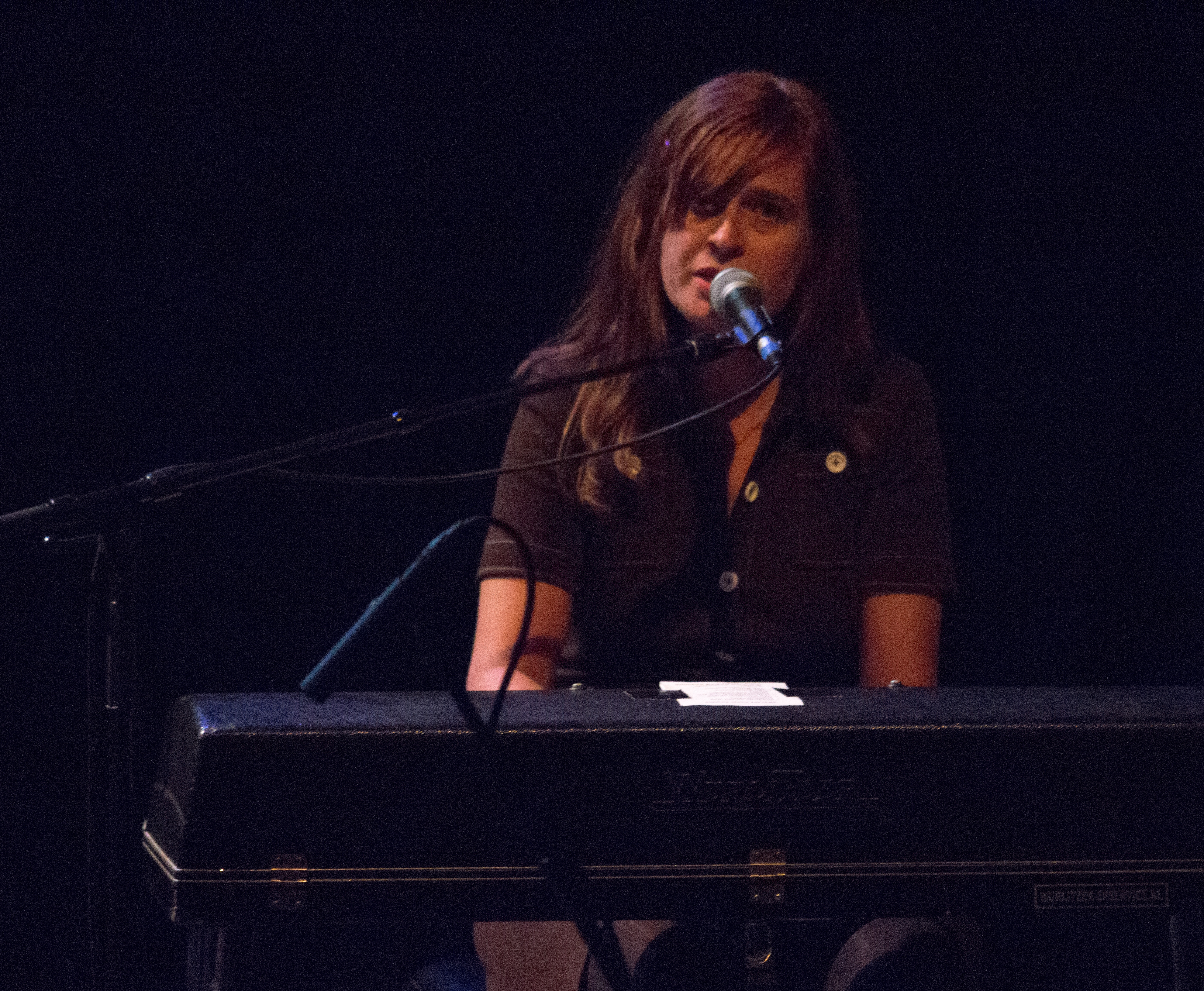 Sonja van Hamel at the first edition of the CrossComix Festival